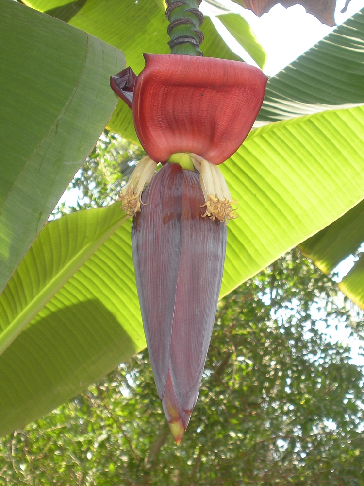 Banana Flower, Kerala